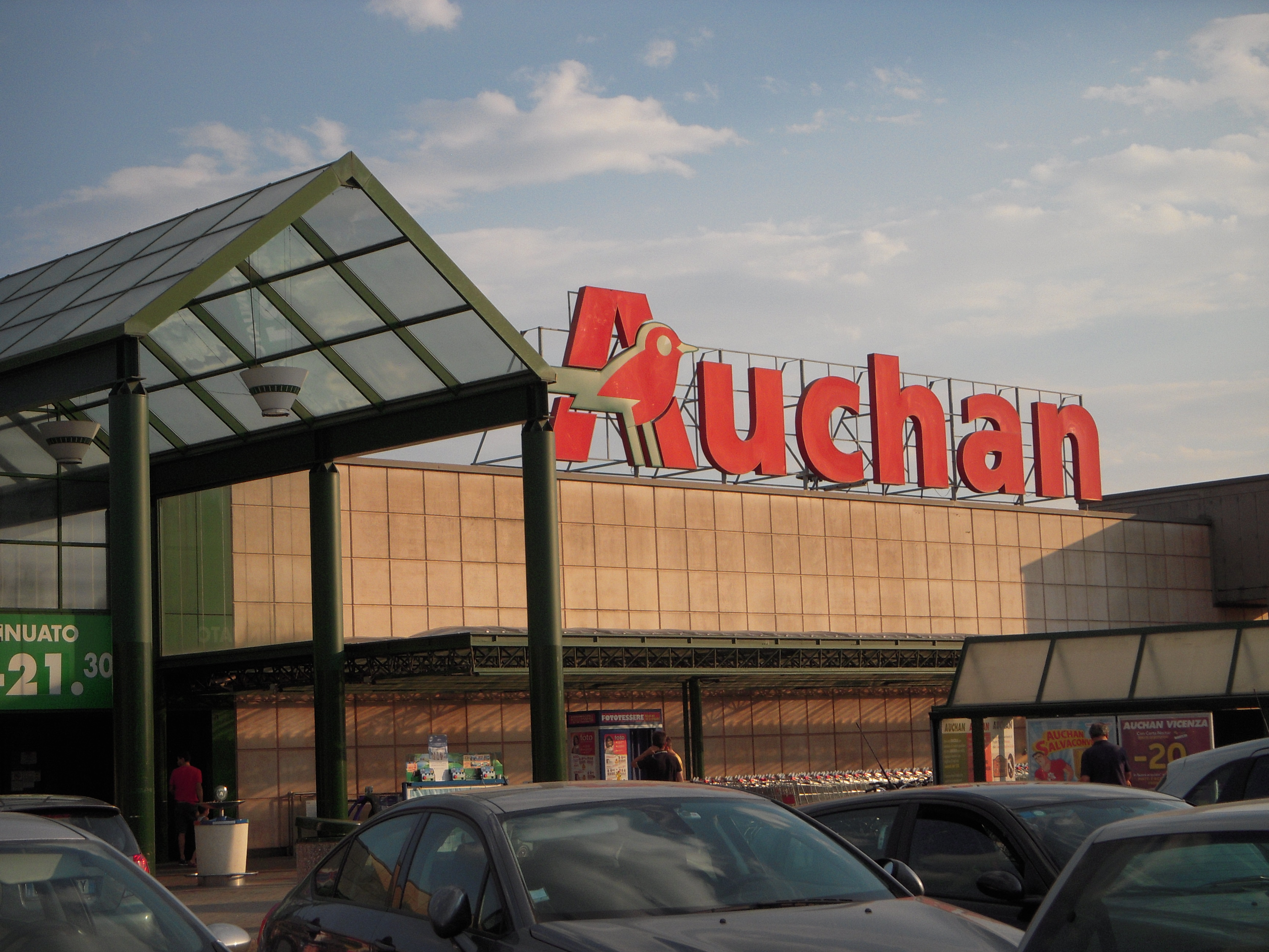 The supermarket Auchan in Vicenza, Italy. August 11, 2012.